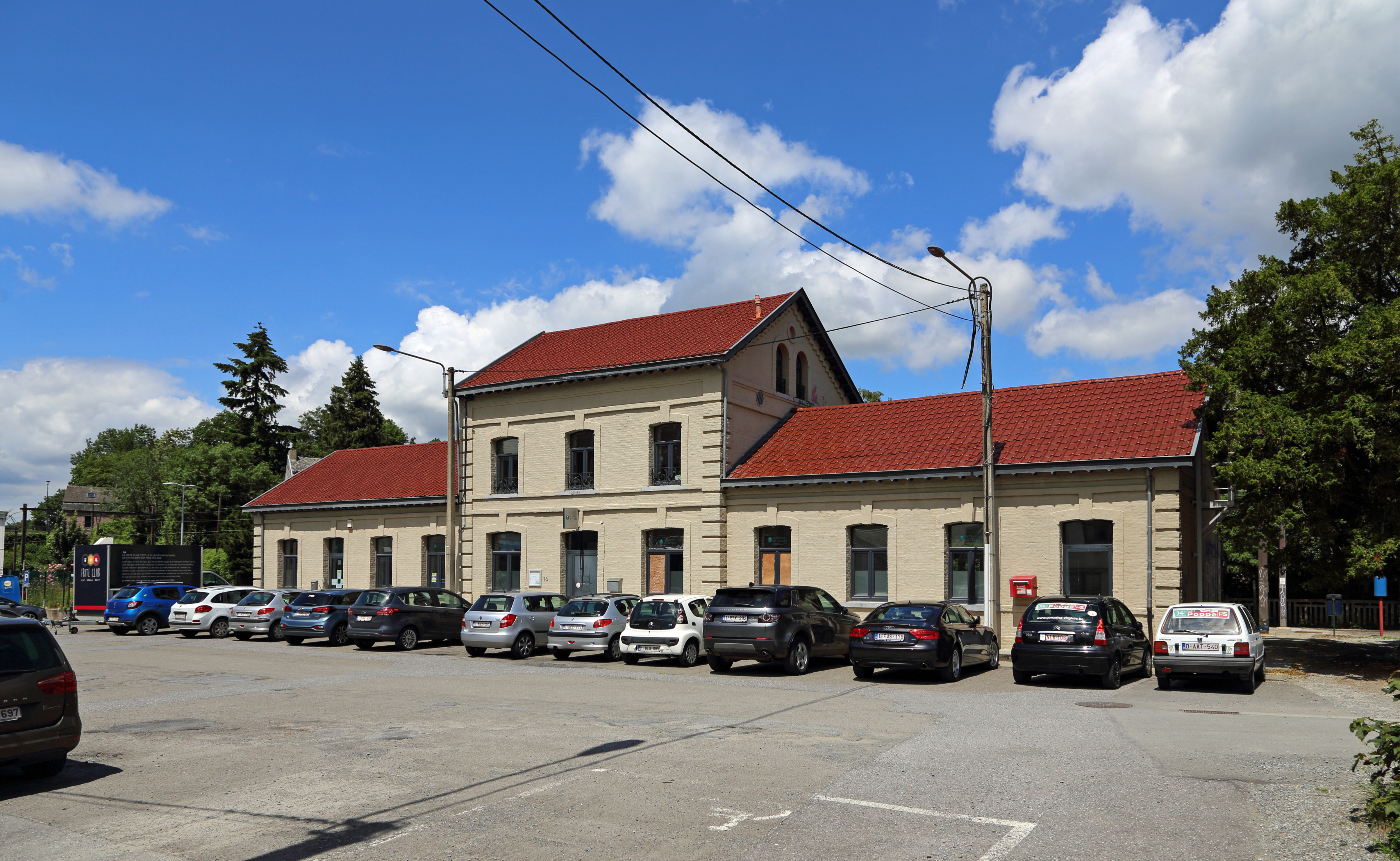 Thuin (Belgium): (former) train station